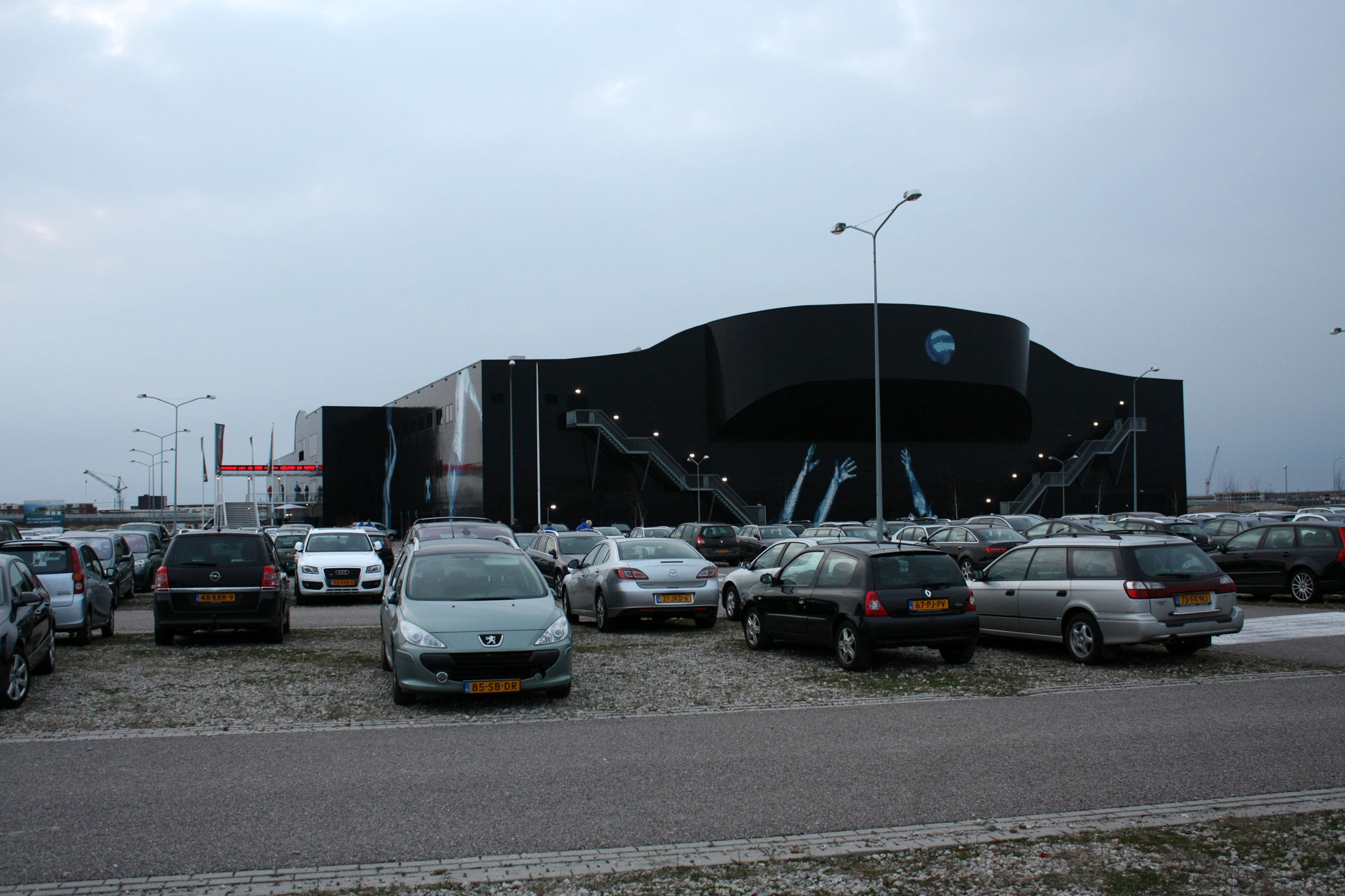 The sports centre in Almere, the Netherlands